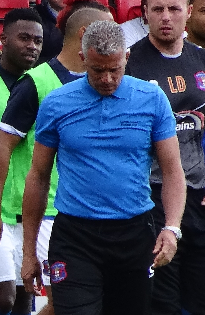 Keith Curle before Carlisle United's match against York City's at Bootham Crescent, York on 19 September 2015